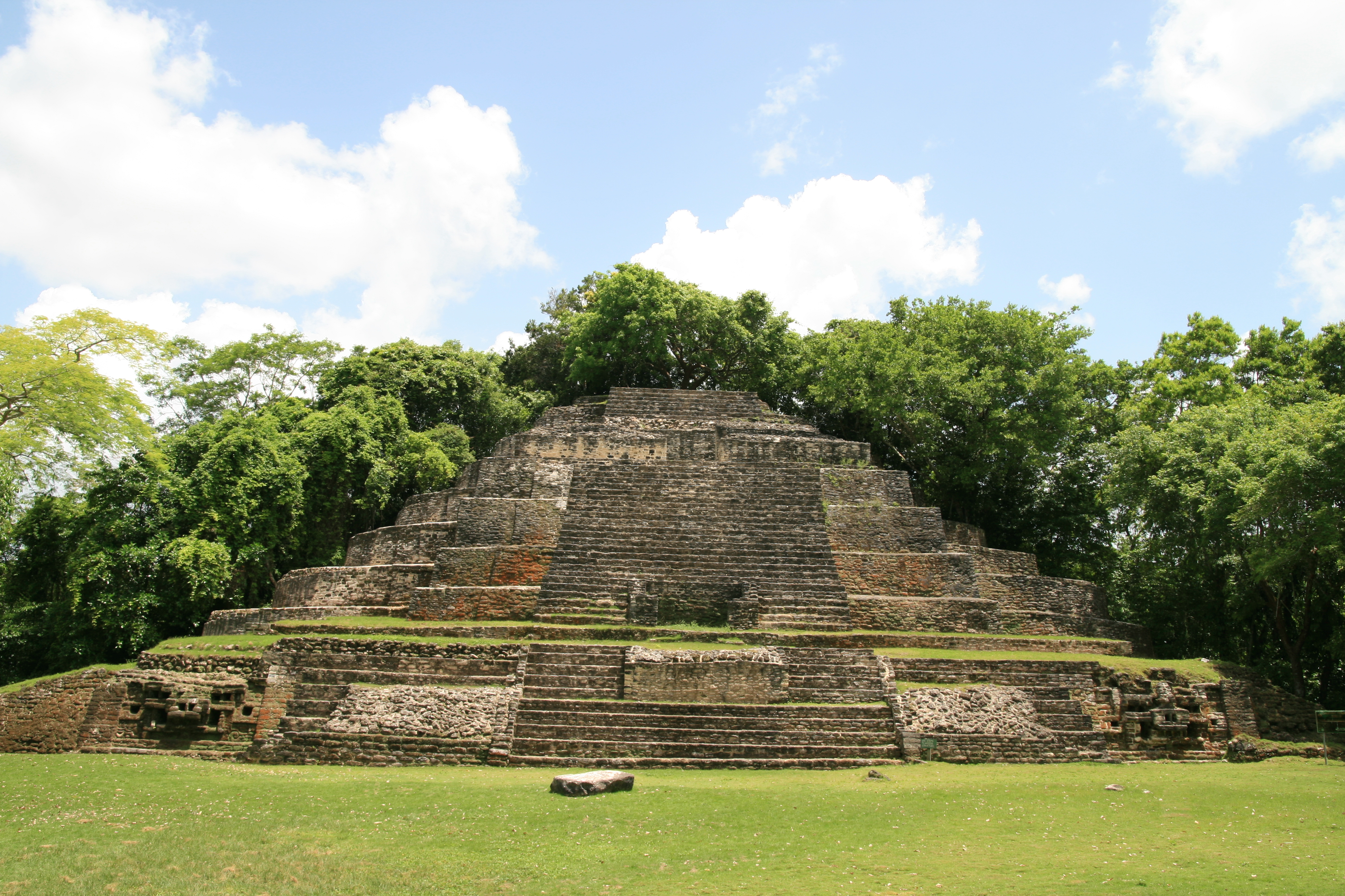 Temple of the Jaguar at Lamanai, Belize.